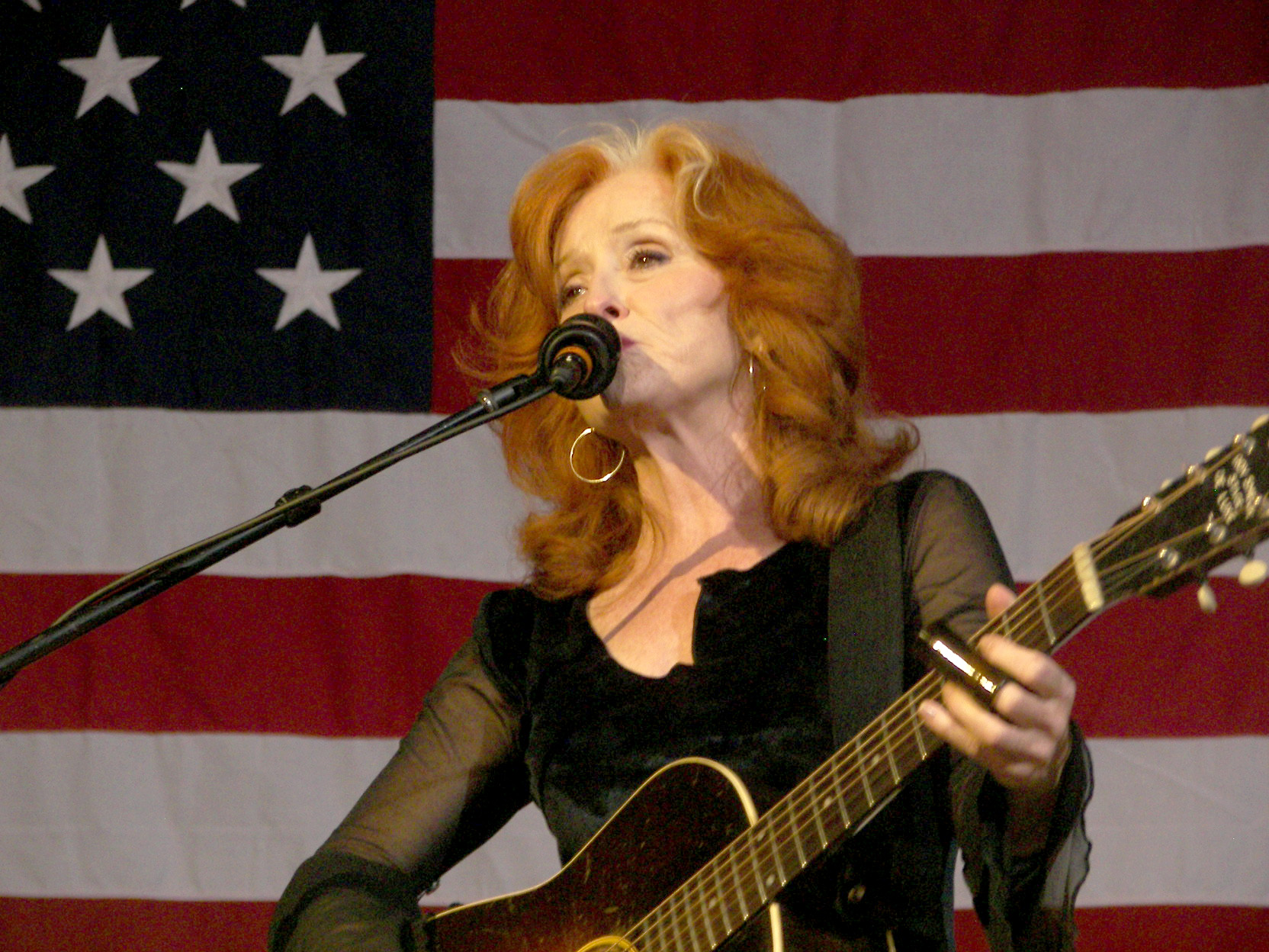 Bonnie Raitt singing for the John Edwards presidential campaingn101_5031